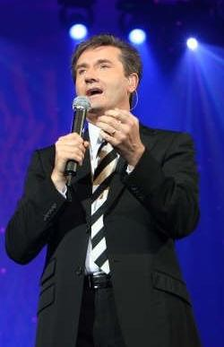 A cropped version of the picture Image:Danielodonnellindublin.jpg